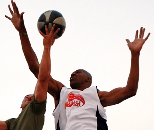 Sgt. Eddie T. Hedgepeth (left) and Thurl Bailey (right) jump up for a ball. Thurl Bailey visited and played basketball with service members in Iraq as part of a program arranged by Morale, Welfare, Recreation, and Pro Sports MVP. Photographed by Cpl. Edmiston, of the 2nd Marine Logistics Group